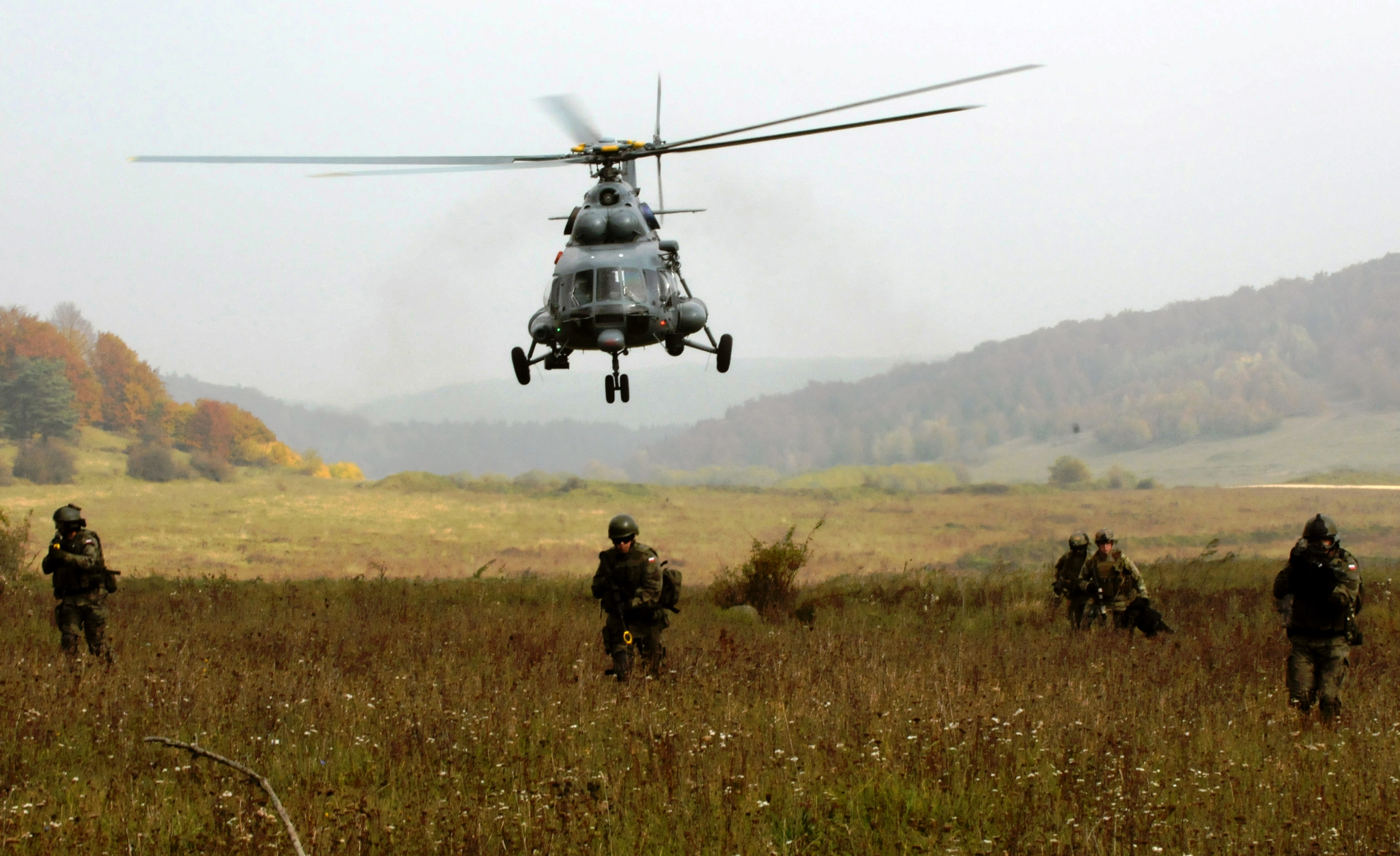 U.S. and Polish Special Operations Forces Soldiers move across a field to their objective as a Lithuanian Mi-17 helicopter hovers above during a casualty evacuation exercise rehearsal held Oct. 14 at the Joint Multinational Readiness Center in Hohenfels, Germany.